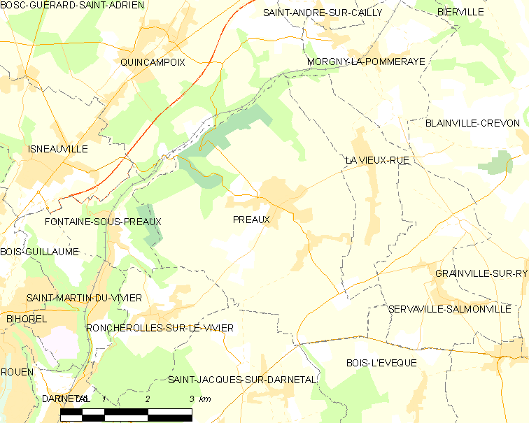 Map of French municipality Préaux